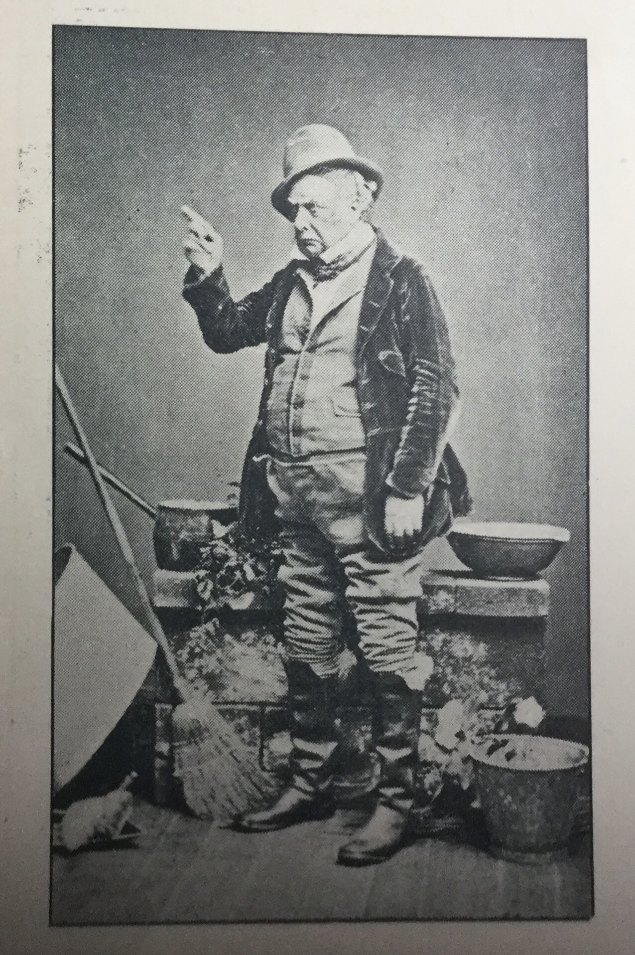 British born stage actor George Coppin, 19th century